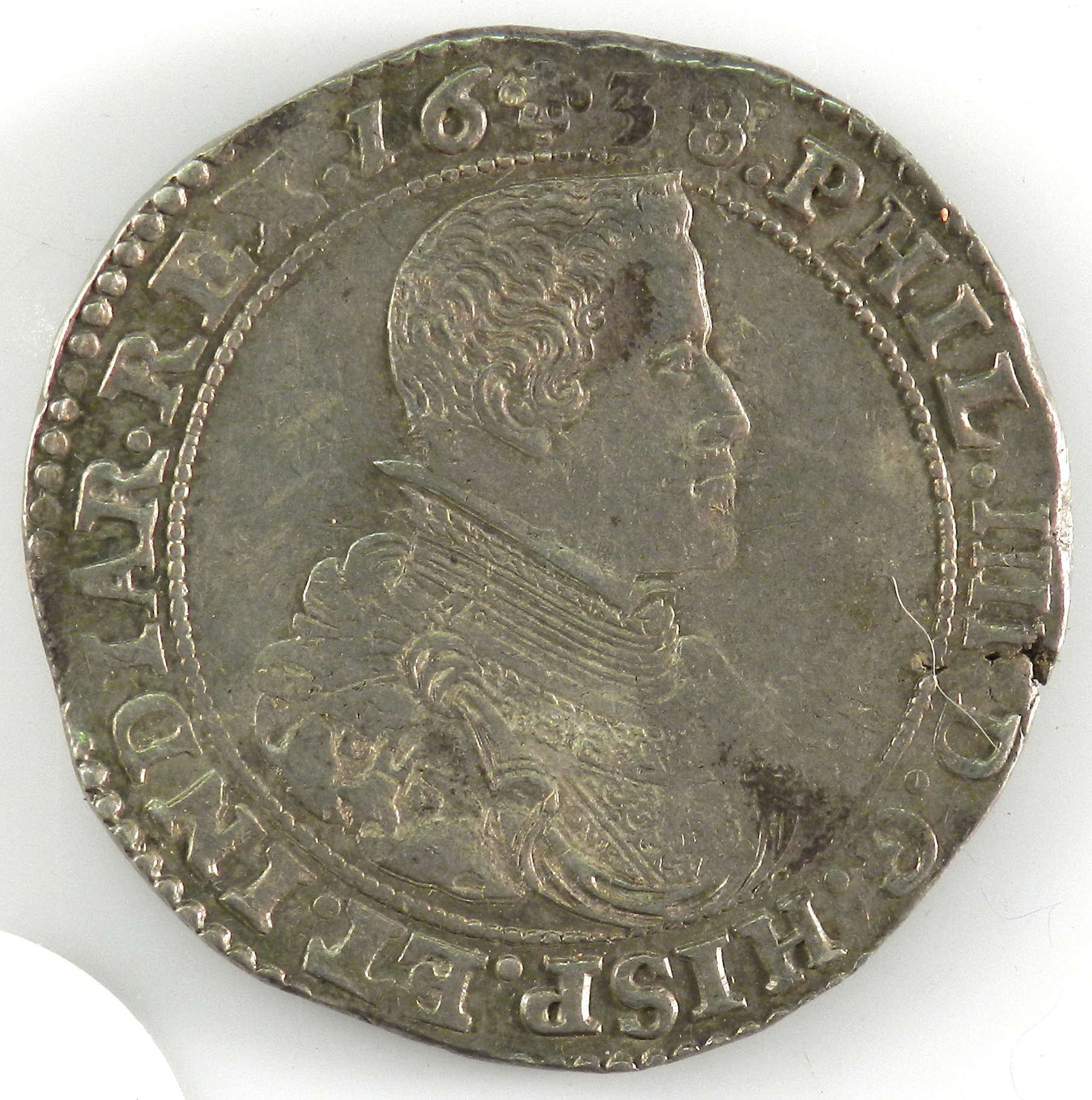 Obverse (front) of a Ducaton of Philip IV of Spain, showing bust. Of type: Van Gelder and Hoc 327.3b. From Pot B of the Middleham Hoard